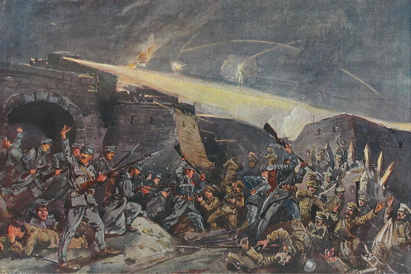 Storming Fort Siedlicka, the fortress of Przemysl by K.U.K. infantry